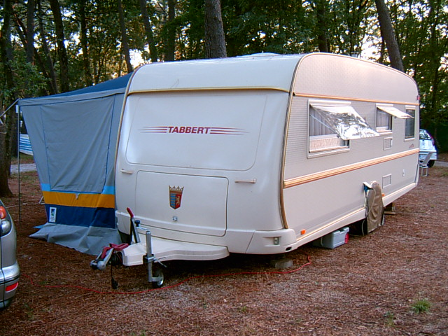 Tabbert Comtesse travel trailer.